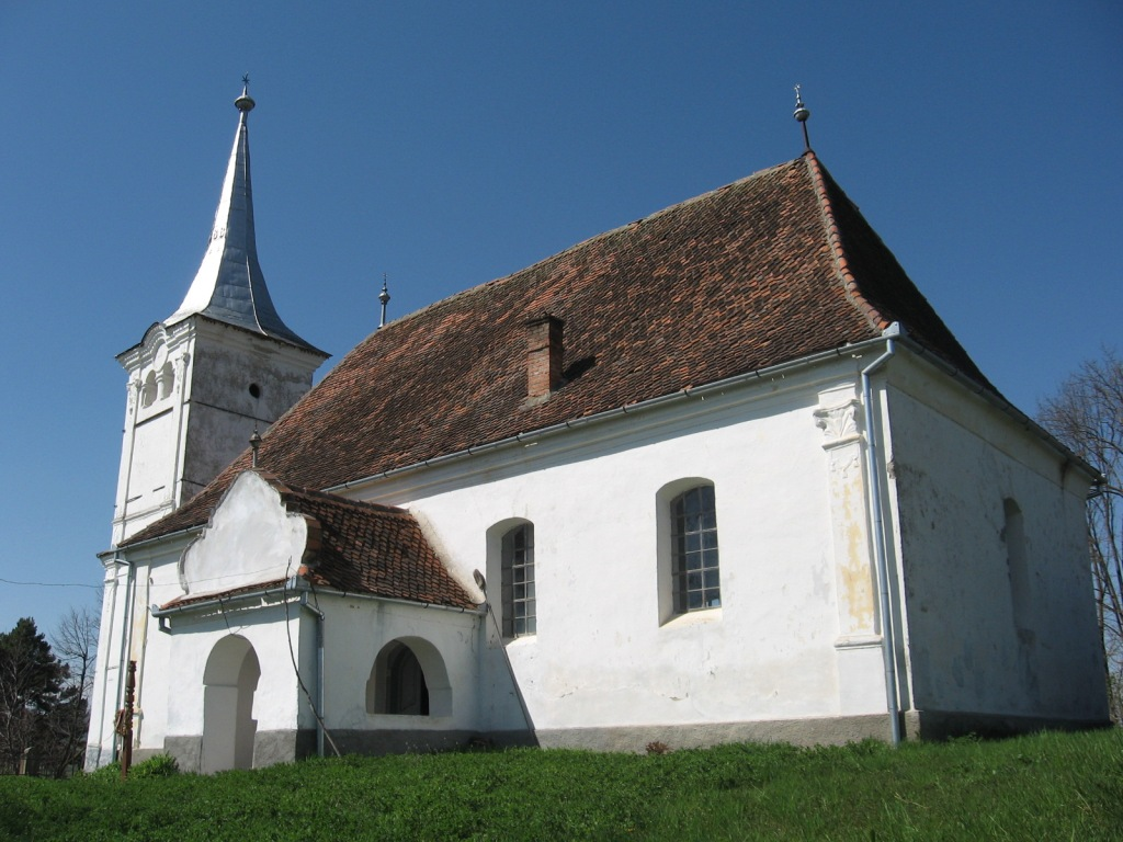 Covasna County ,Étfalva -Zoltán, Refomed church